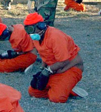 Detainees at Camp X-Ray being subjected to sensory deprivation (wearing ear muffs, visor, breathing mask and mittens). Cropped version of Image:Camp x-ray detainees.jpg